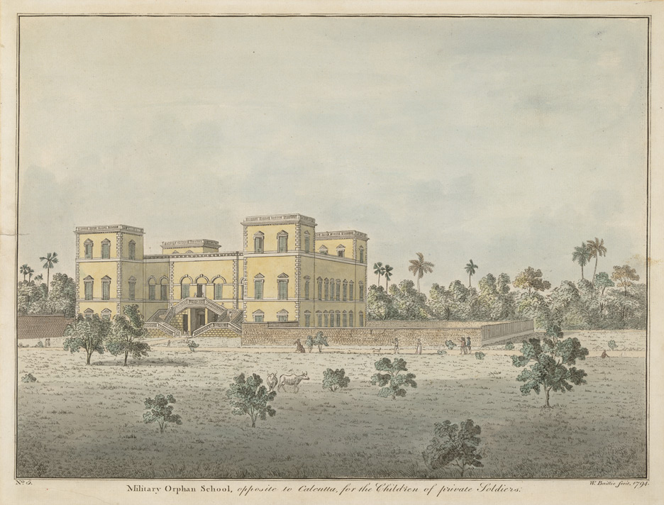 "Military Orphan School opposite to Calcutta for the Children of Private Soldiers," aquatint with etching by William Baillie. The house was originally built about 1767 as a rum distillery by John Levett, Esq., Mayor of Calcutta, and was later known as "Levett's Gardens," but was later converted in 1782 by Capt. William Kirkpatrick as an orphanage for the children of British soldiers. The orphanage occupied the building until 1815. Afterwards it served as the courthouse.